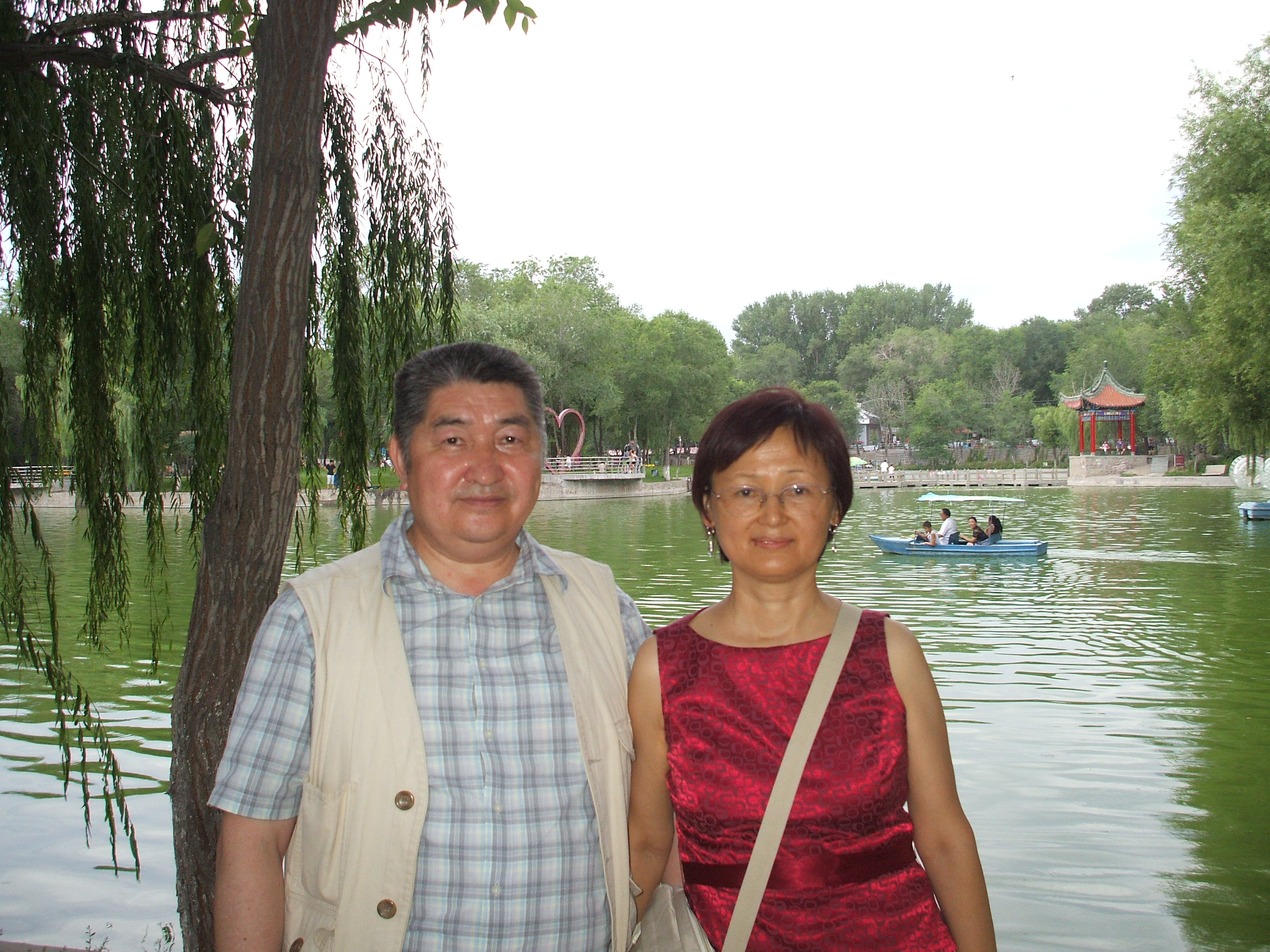 Nurgul Dyikanalieva and Tyntchtykbek Tchoroev in Sanji, China, on 03 August 2009 Кыргызча: Нургүл Дыйканалиева менен Тынчтыкбек Чоротегин Санжи (Шенцзи) шаарында. ШУАР, Кытай. 2009-жылдын 3-августу.